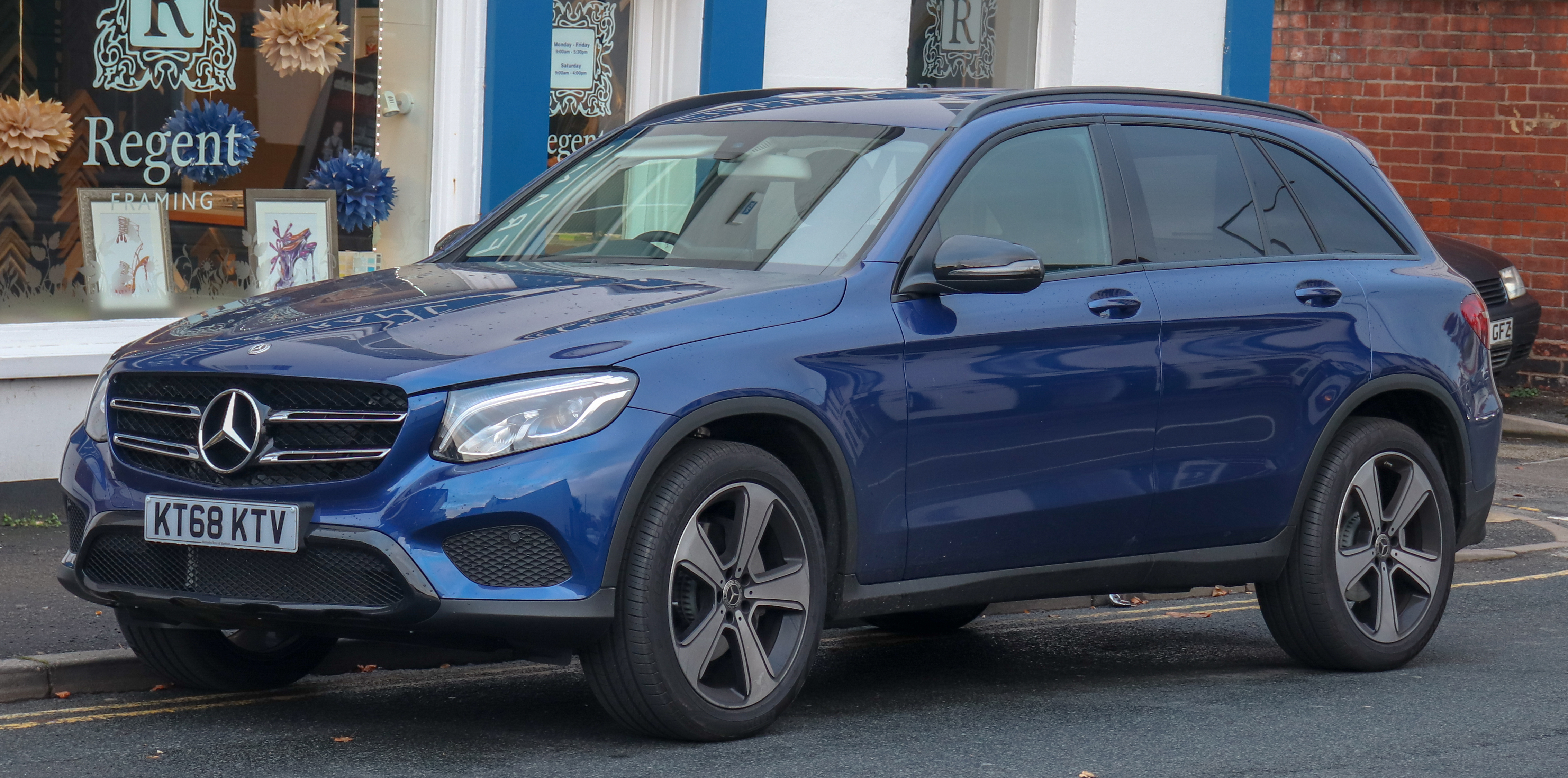 2018 Mercedes-Benz GLC 250 Urban Edition 4MATIC 2.0 Front Taken in Leamington Spa